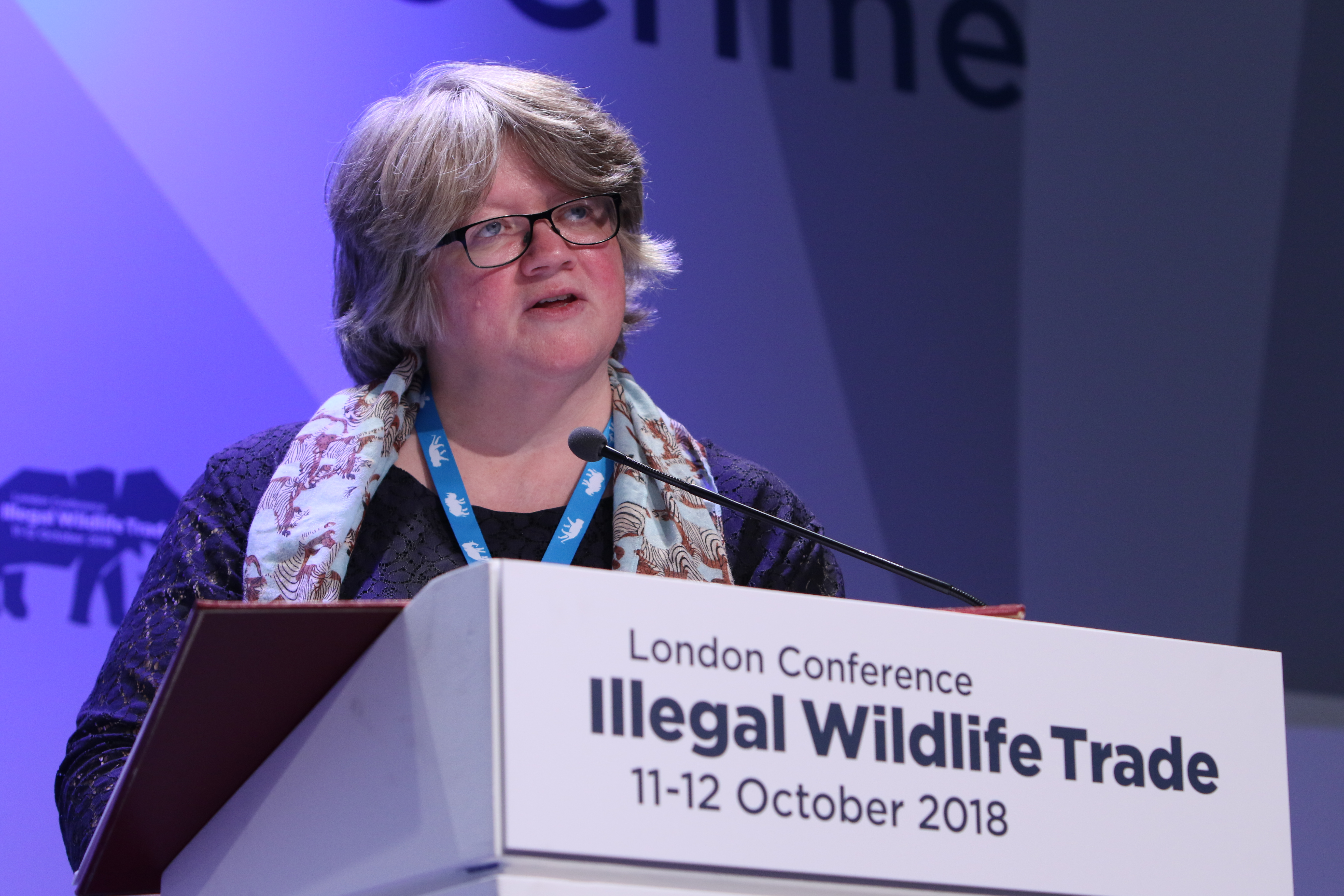 Thérèse Coffey, Parliamentary Under Secretary of State at the Department for Environment, Food and Rural Affairs speaking at the Illegal Wildlife Trade Conference: London 2018, 12 October 2018.